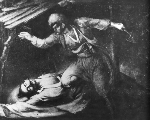 Black-and-white copy of the original work from 1862 (Oil on canvas, 105x77 cm).[1]